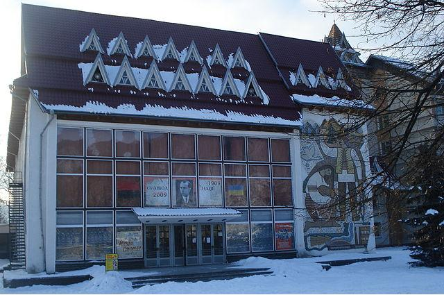 Vygoda Club